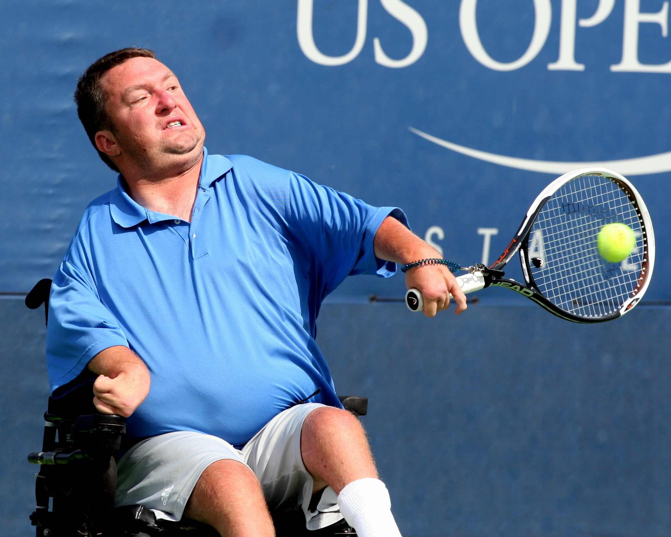 U.S. Open Wheelchairs Thursday, Sept. 5, 2013